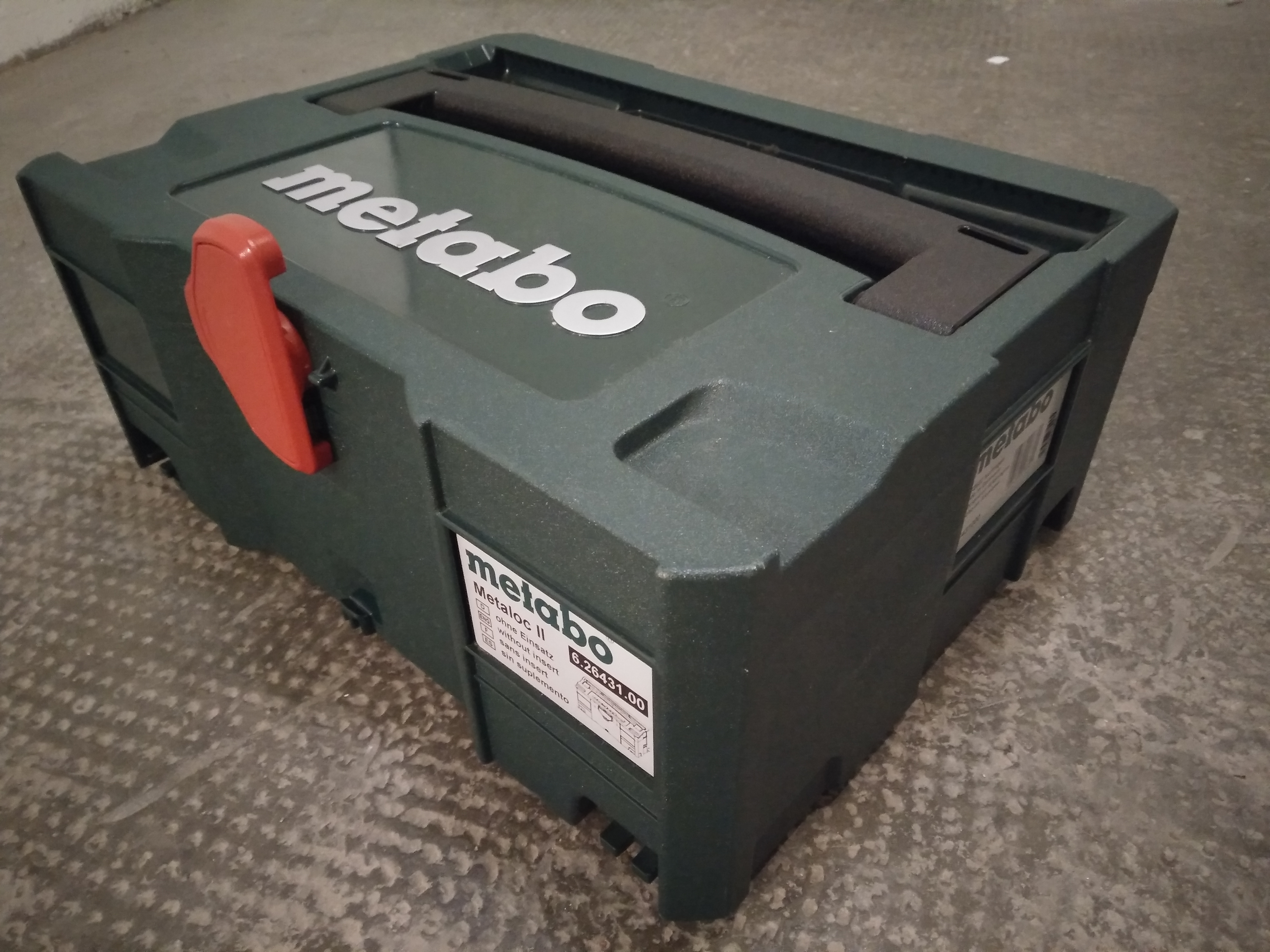 Metabo Box for cordless screwdriver. Plate says: 6.26431.00 Metaloc